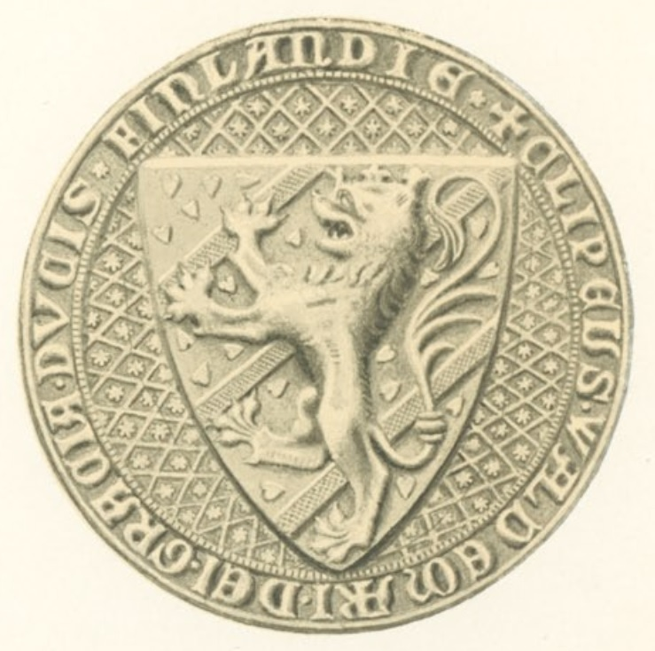 The seal of Valdemar Magnusson, duke of Finland (d. 1318).